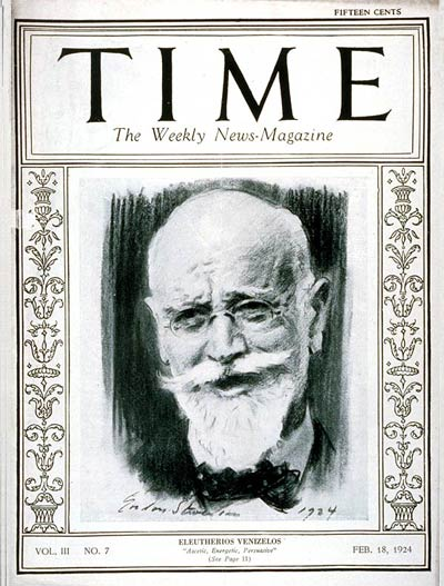 TIME cover about Eleftherios Venizelos